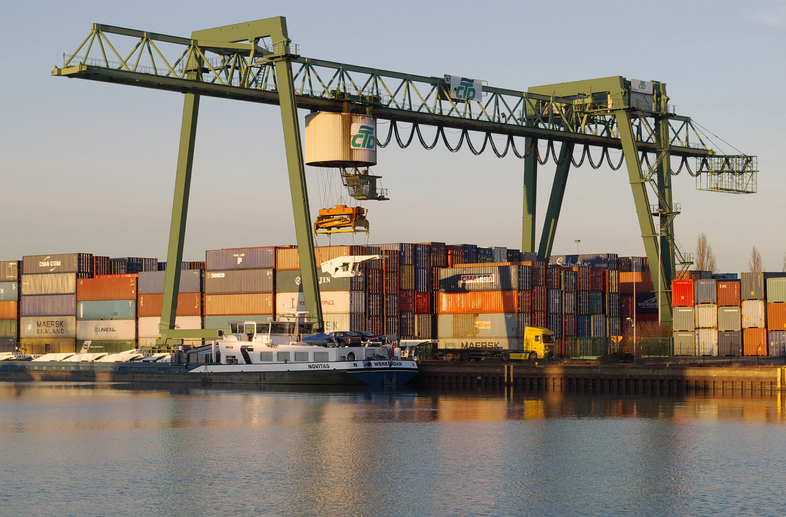 Port cranes for containers, visible trailing cable